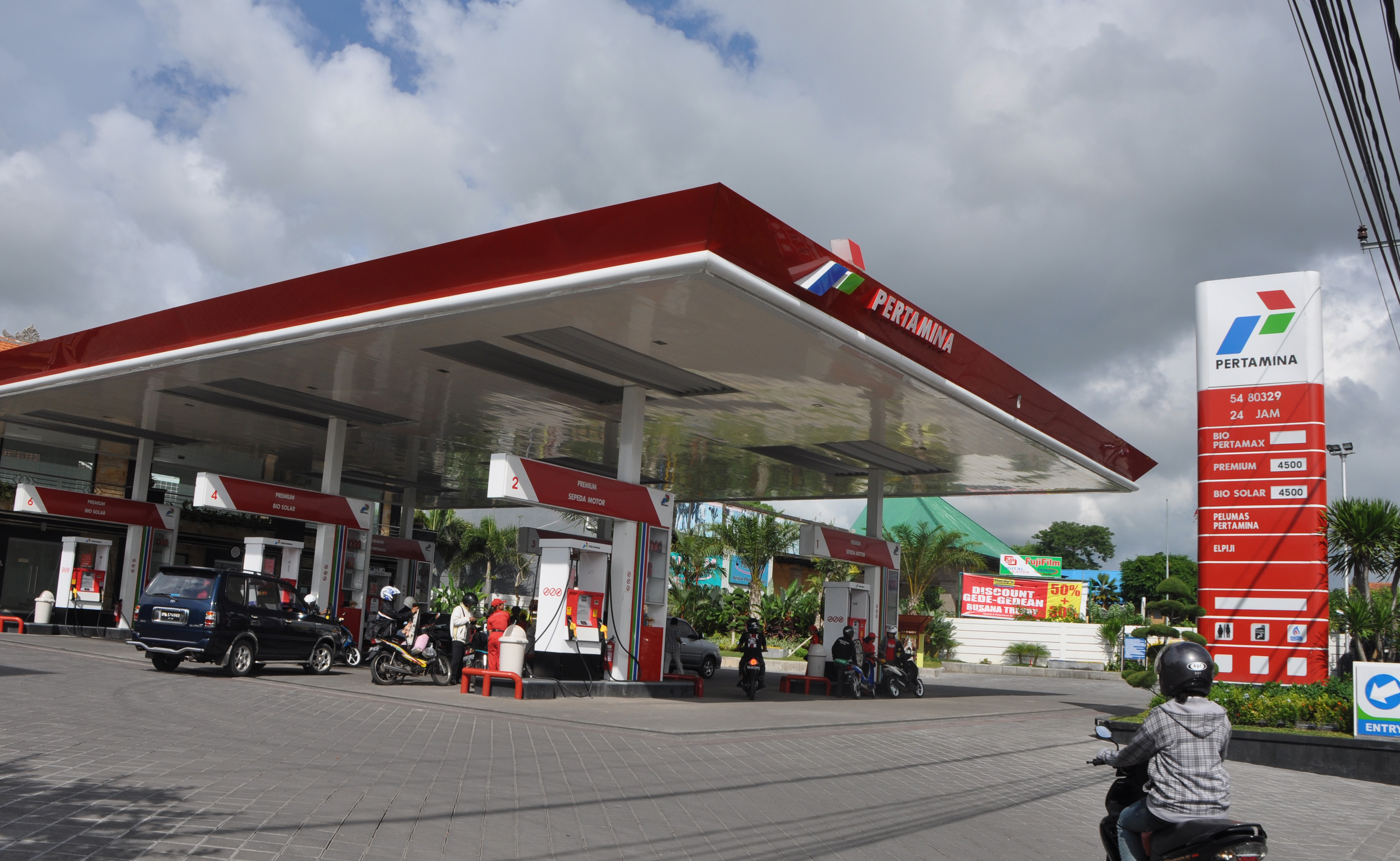 Pertamina filling station, Bali Island, Indonesia